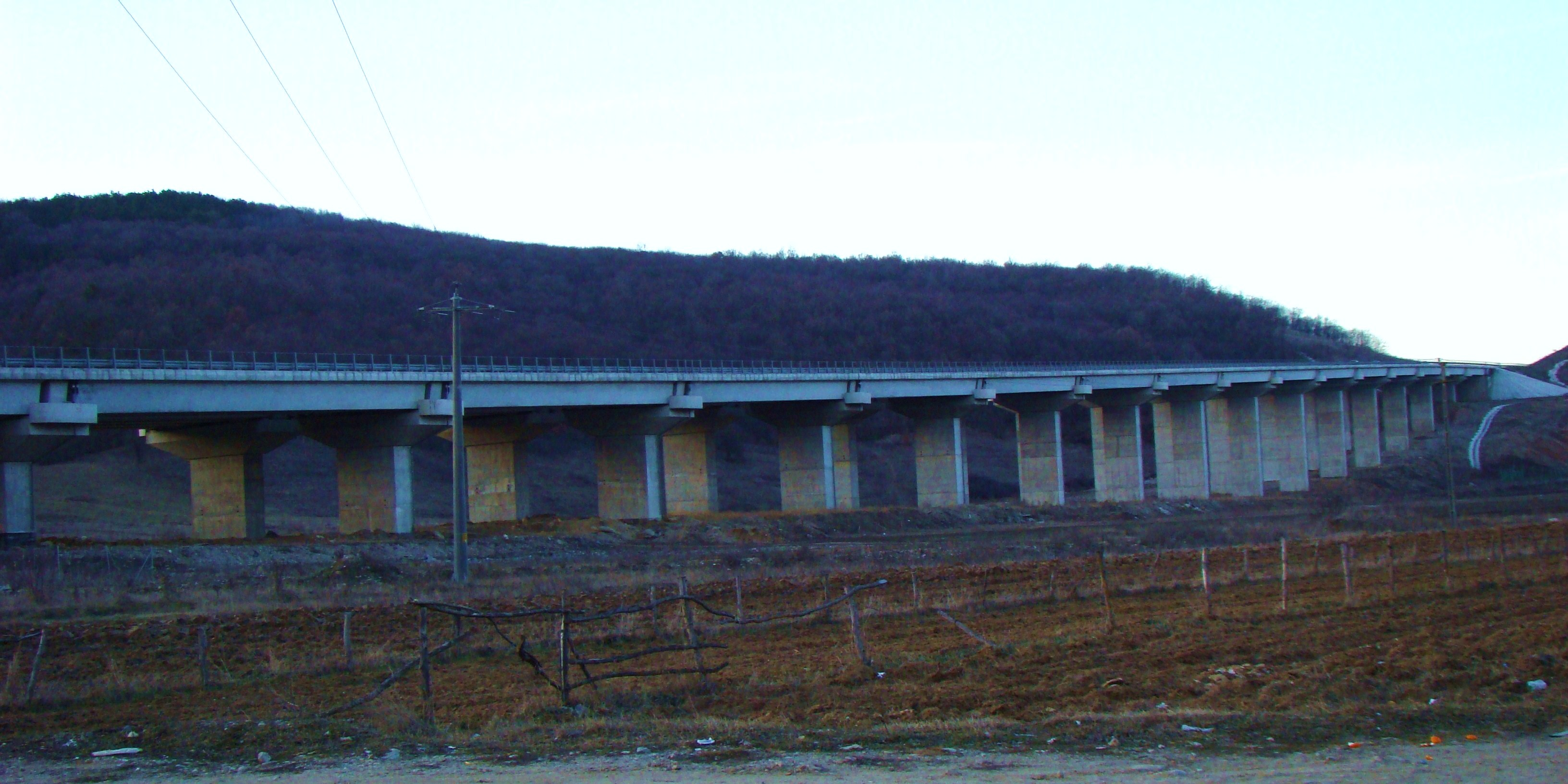 A3 motorway (Romania) near Gilău